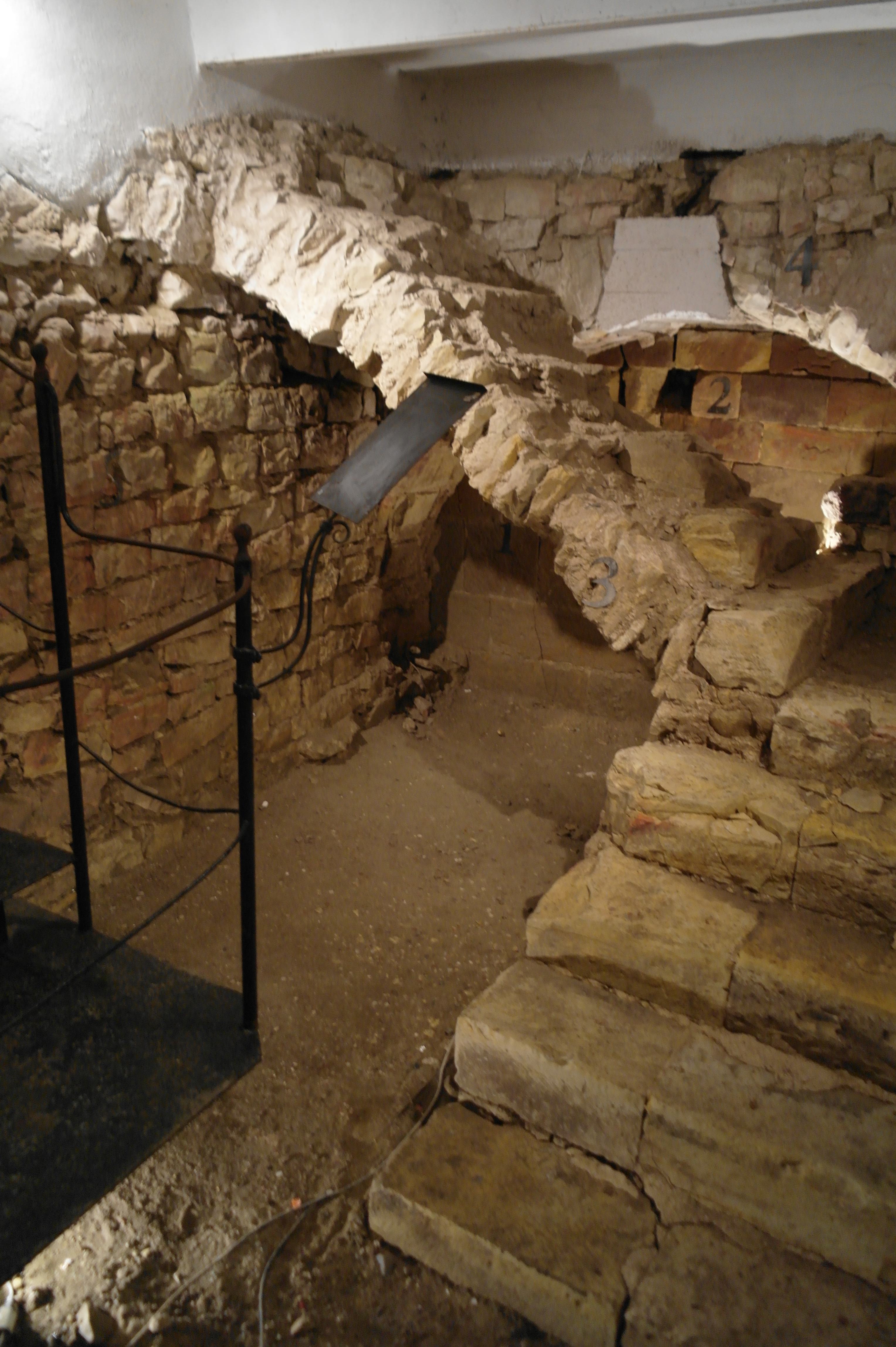 Old structures in Charles Bridge Museum. A part of the stone wall of Judith bridge is marked with number 2, the arch is not a part of the bridge.